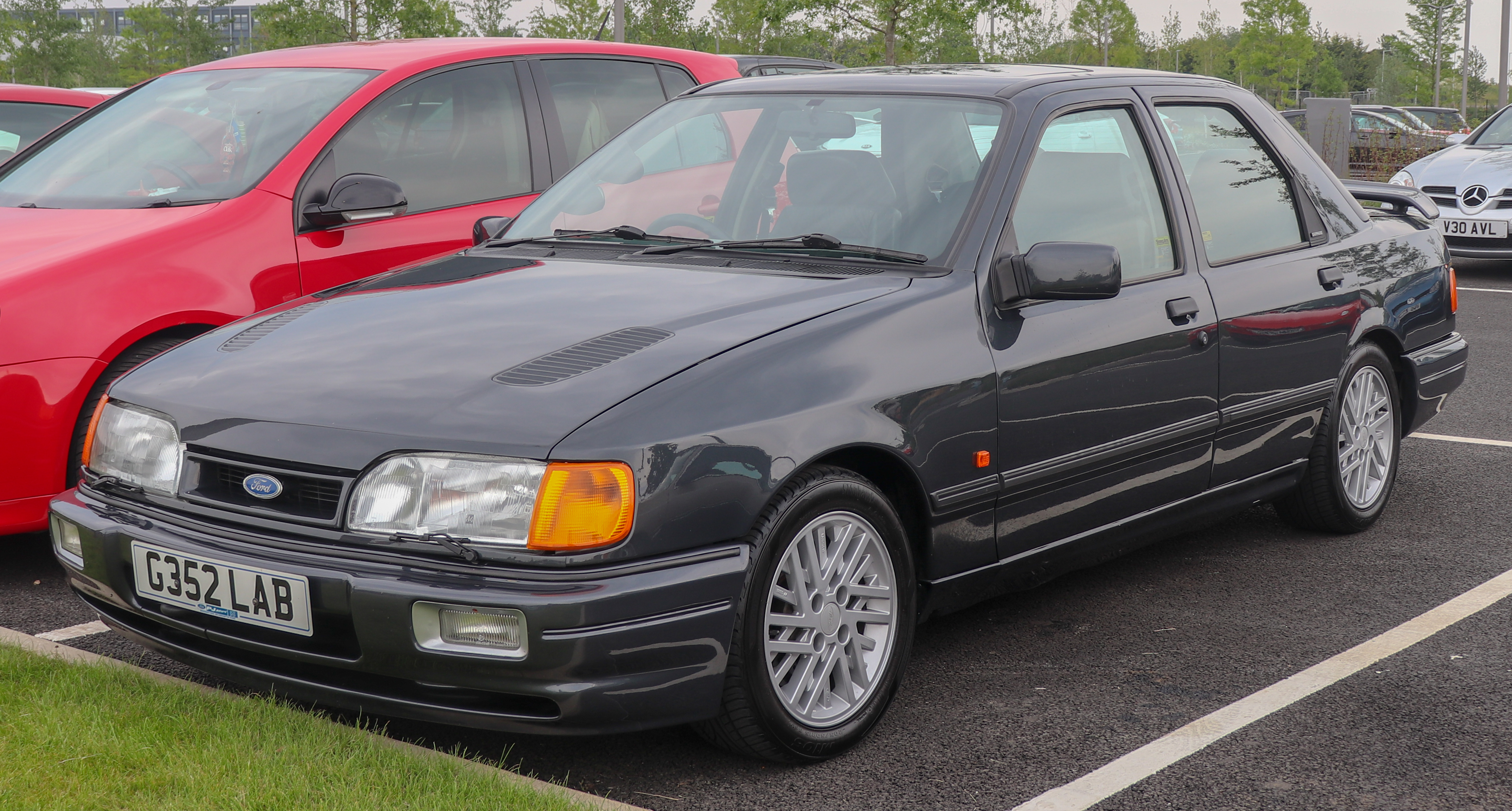 1990 Ford Sierra Sapphire RS Cosworth 2.0 Front Taken at the British Motor Museum, Gaydon